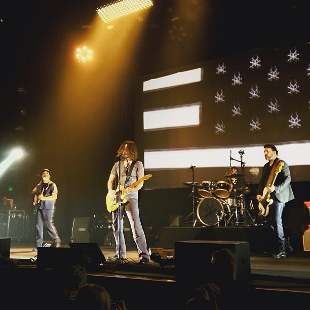 Soundgarden performing at the Fox Theater in Oakland on 16 February 2013.